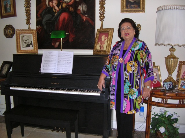 Virginia Zeani, Romanian born operatic soprano, in her music room at home in Florida.